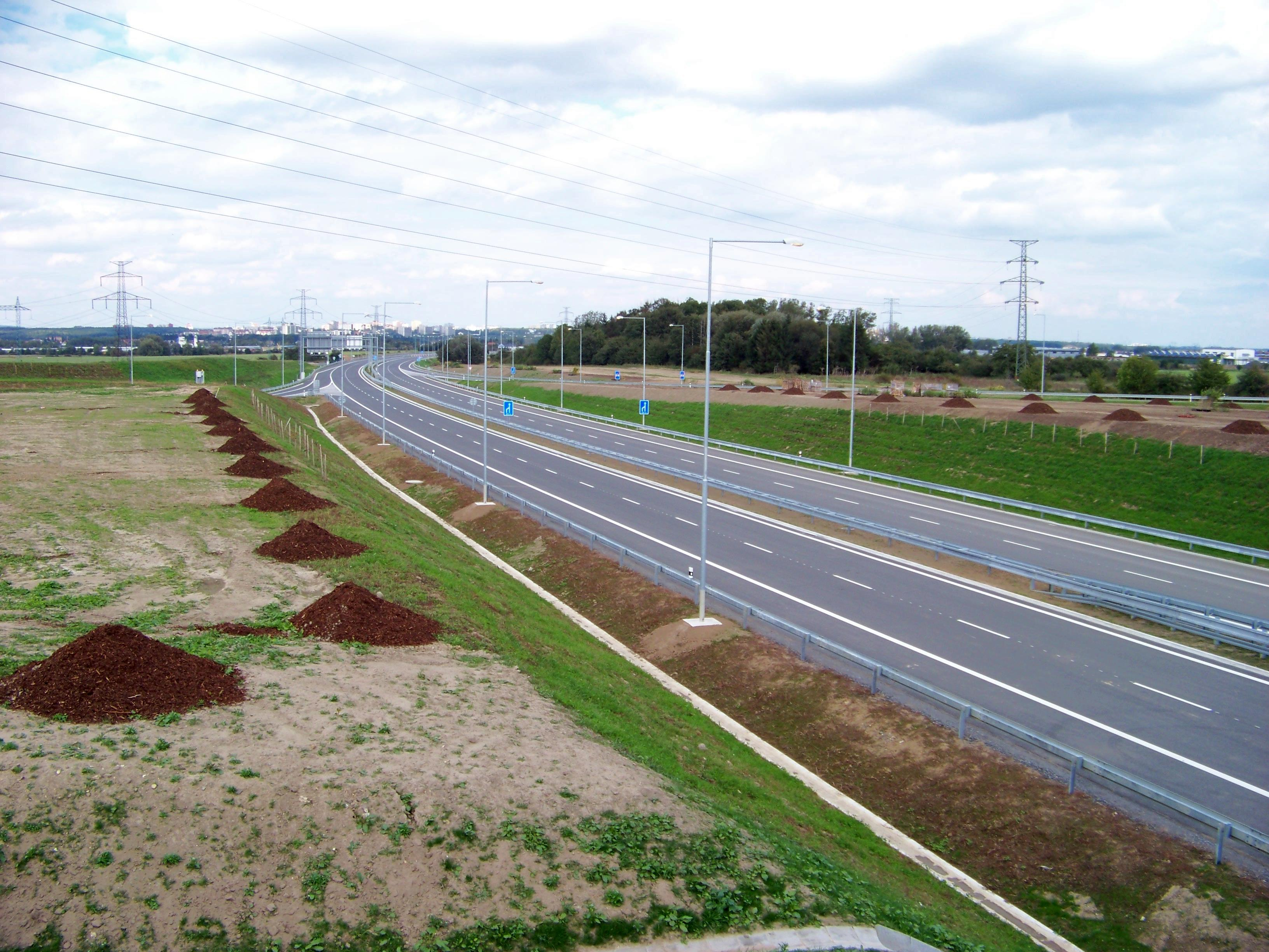 Zlatníky-Hodkovice, Prague-West District, Central Bohemian Region, the Czech Republic. Open Doors Day of the new section of Prague Beltway. Vestecká spojka near Exit 3 of Prague Beltway.